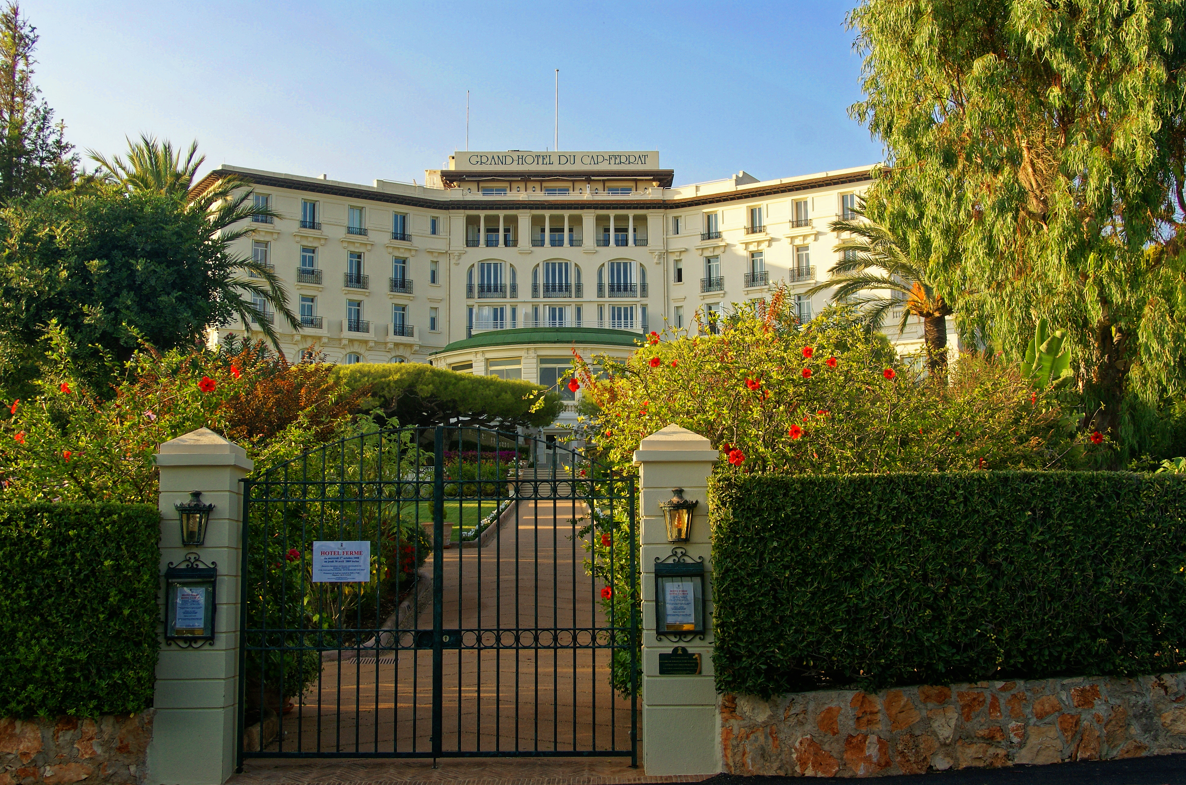 Cap-Ferrat - Avenue de la Corniche - View NNW on Grand Hotel du Cap Ferrat